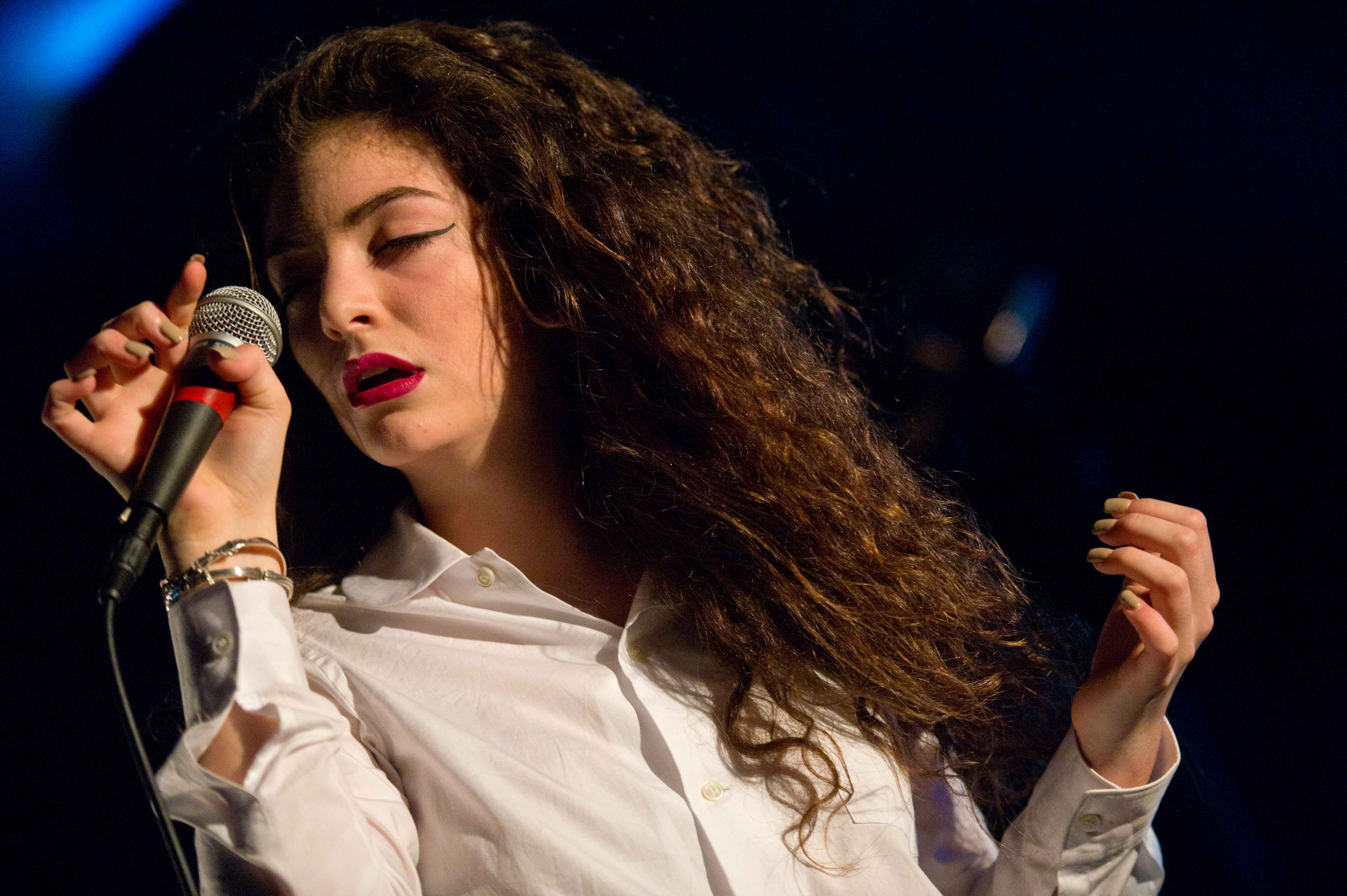 Lorde performs on September 28, 2013 at Showbox at the Market during the Decibel Festival in Seattle, Washington